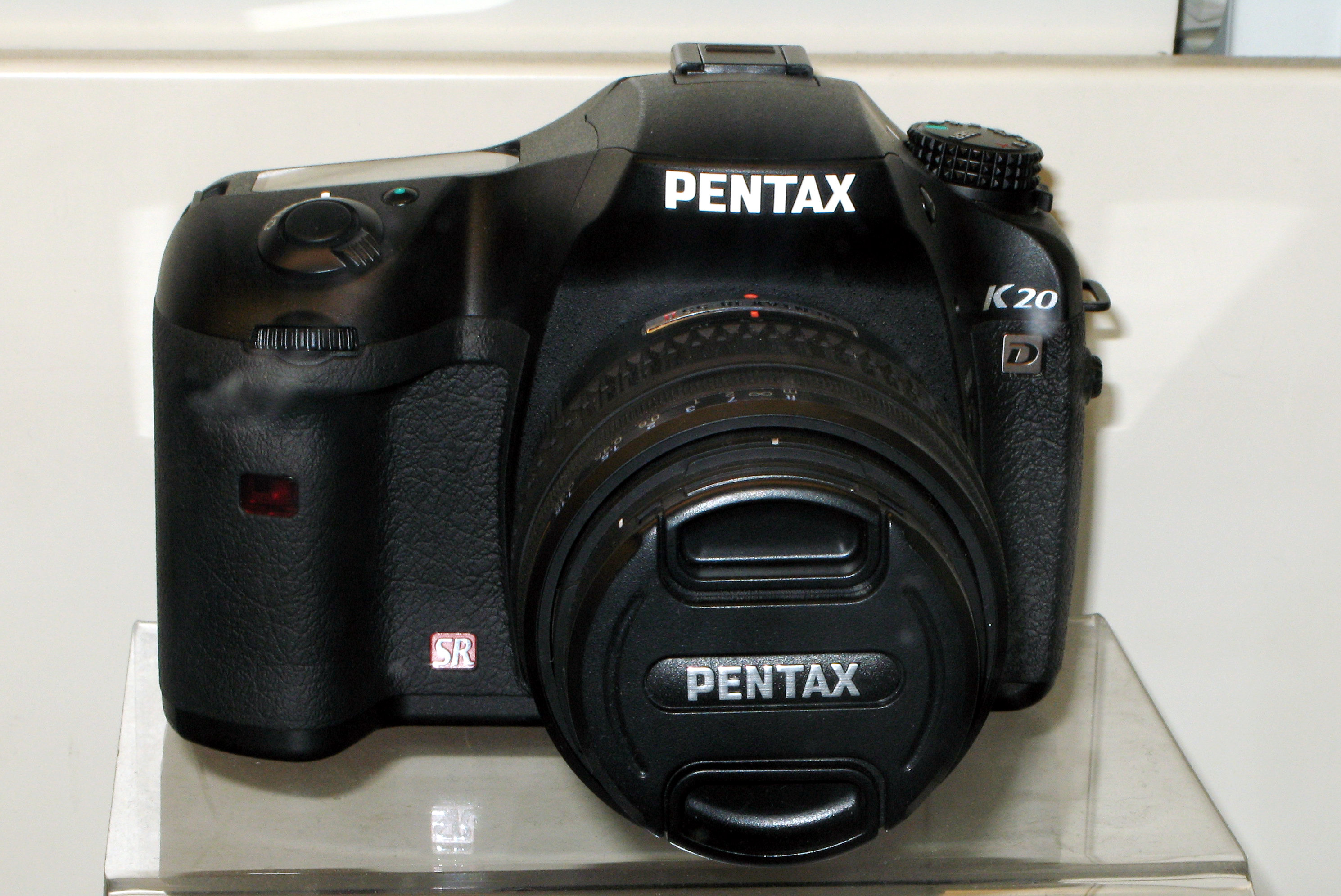 Pentax K20D